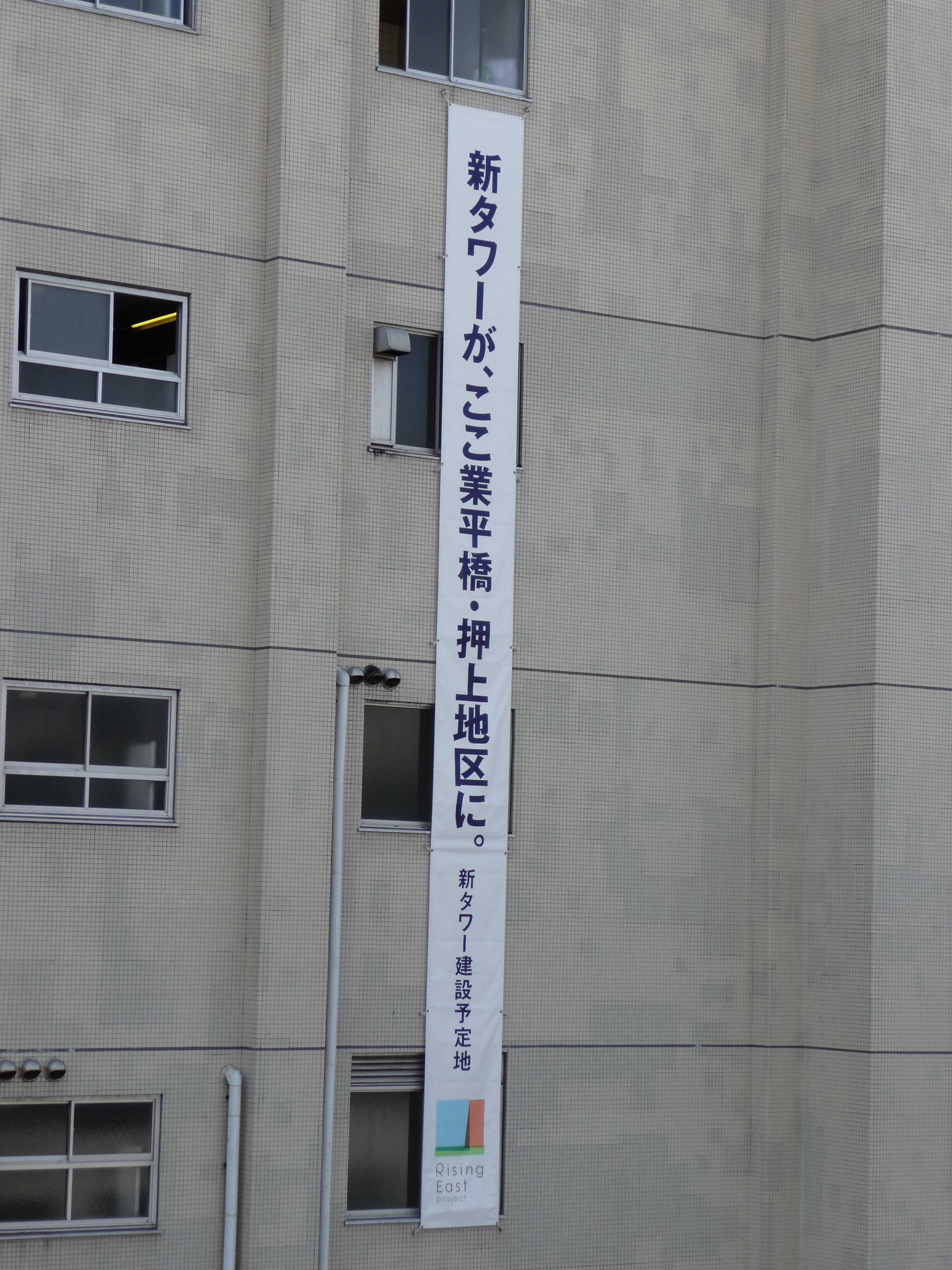 New Tokyo Tower (later named Tokyo Sky Tree) drop curtain, The new tower will be here, Narihirabashi & Oshiage area, on Tobu Railway headquarter building .